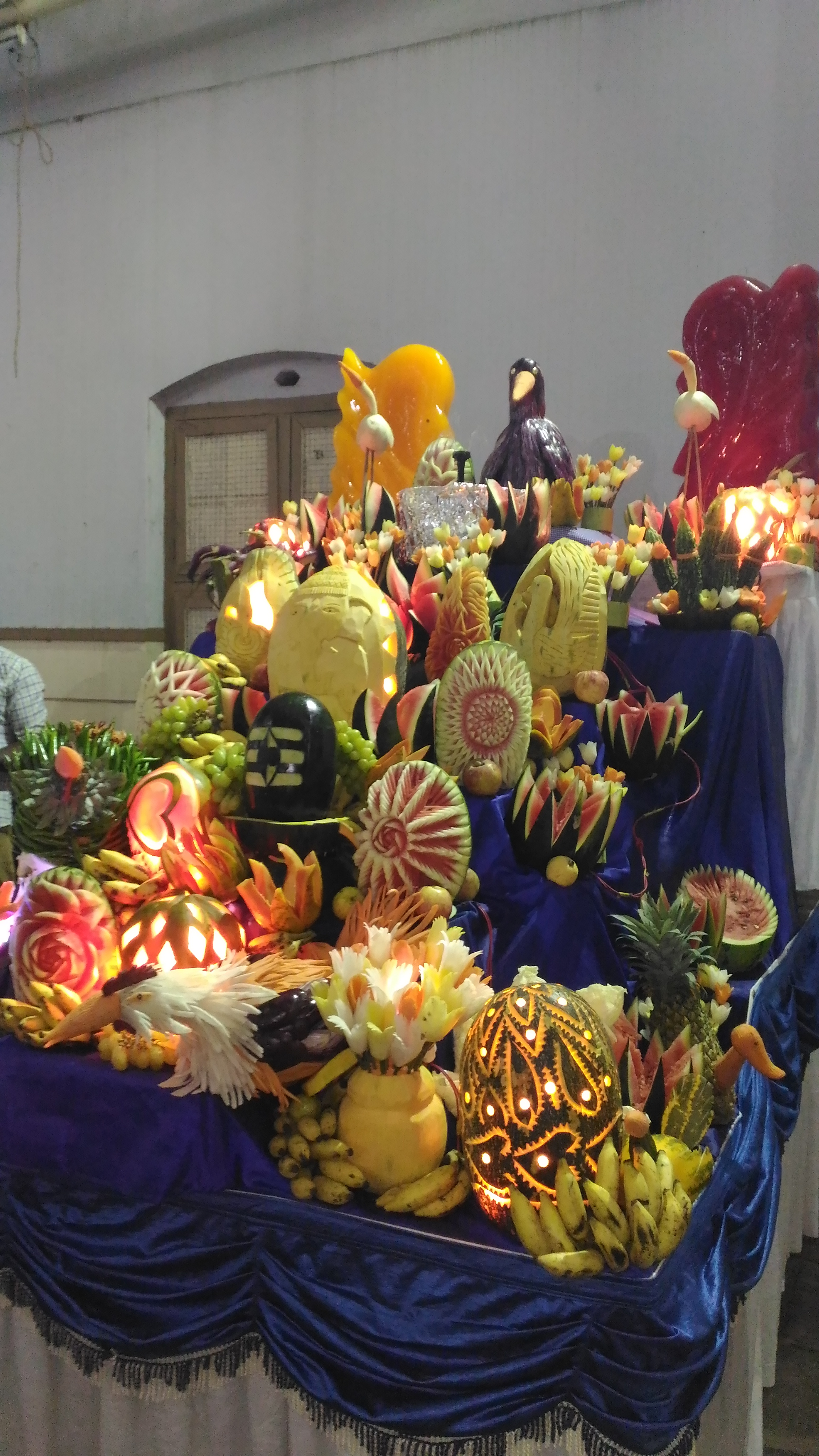 Fruit and vegetable carving